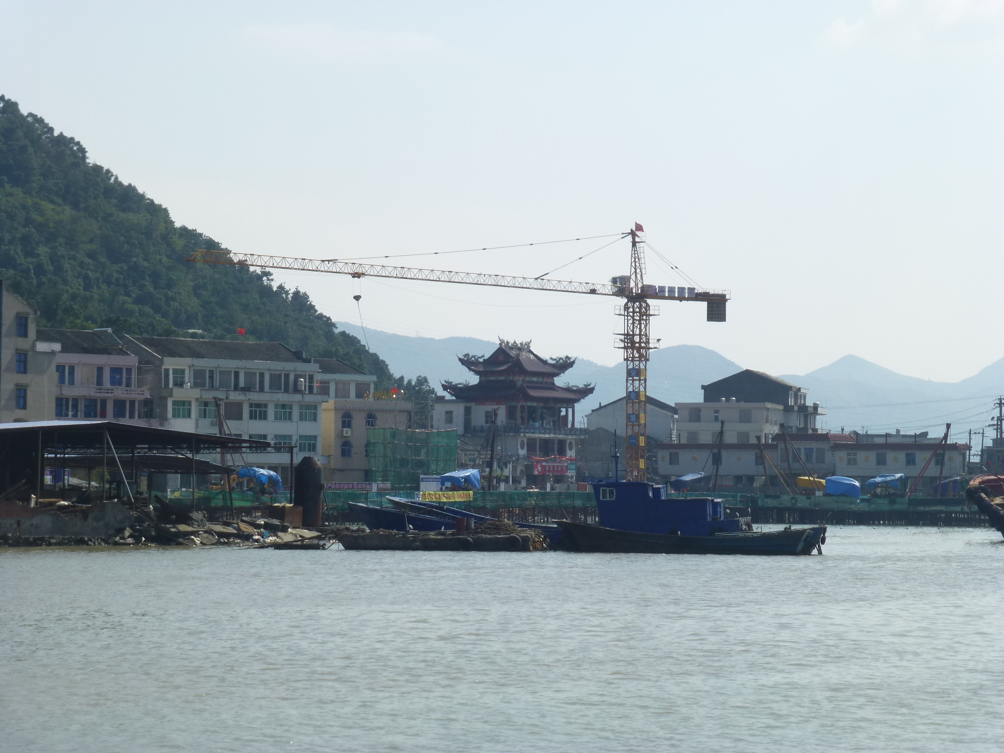 The former Pacao Town (now part of Longgang Town), a fishing harbor in Cangnan County, Zhejiang, China.